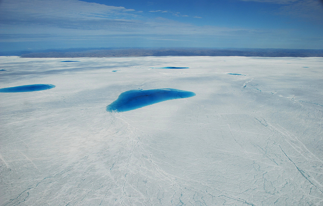 While surface melting at high altitudes will result in the conversion of snow to slush that will then refreeze into denser snow or a thin ice layer, widespread melting at low altitudes can create small ponds of melt water, particularly at the perimeter of the ice sheet. Around the border of the pond, smaller collections of melt water are seen between ridges of ice. CREDIT: Michael Studinger, NASA GSFC, 2008.